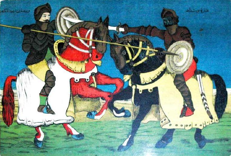 A 19th-century tattooing pattern depicting pre-Islamic Arab hero and poet Antarah ibn Shaddad (right) fighting an enemy. The original uploader of this image on Flickr stated that it came from the Cairo Anthropological Museum. However, there is no such museum in Cairo. The uploader most likely intended to refer to the Ethnological Museum, which is affiliated with the Egyptian Geographic Society.